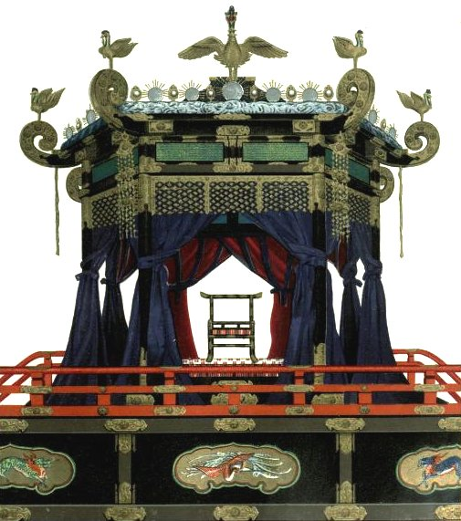 Image of chair used in enthronement of Japanese Emperor Taishō. "TAKAMIKURA", the special seat used by the Emperor at the enthronment.